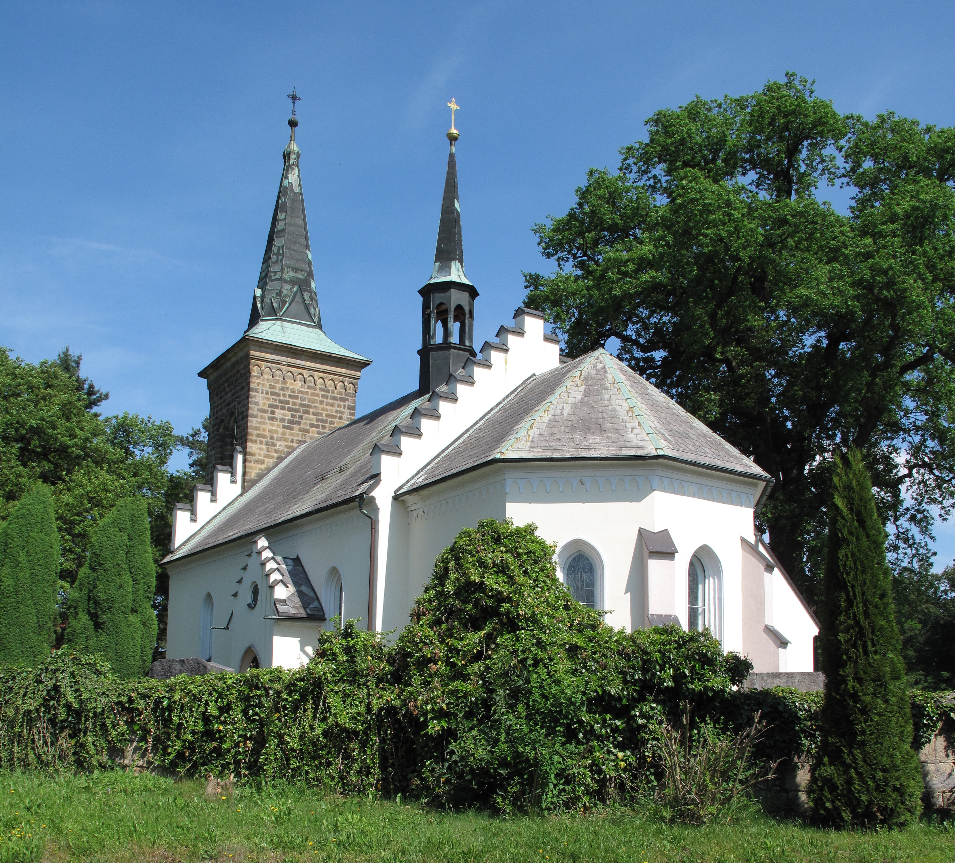 Church of St. Geogre as seen from backwards in Karlovice (near Sedmihorky village), Semily District, Czech Republic.